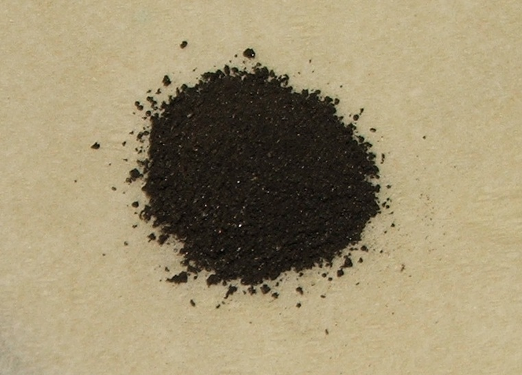 Iron filings